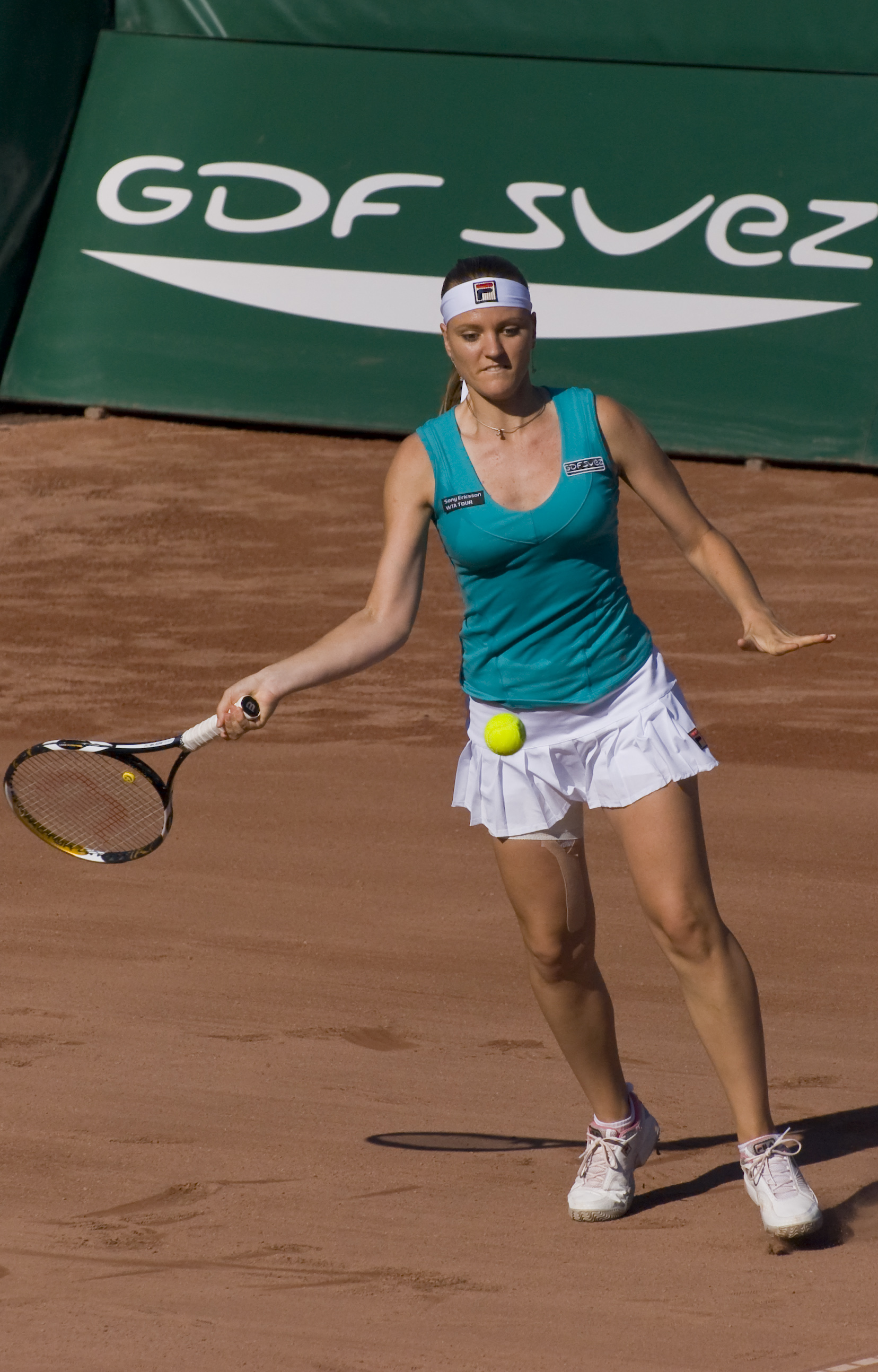 Ágnes Szávay, Budapest, 2010